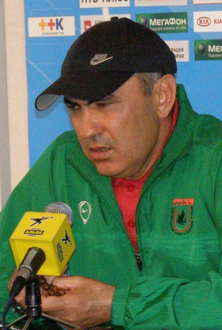 Gurban Berdiýew as head coach of FC Rubin